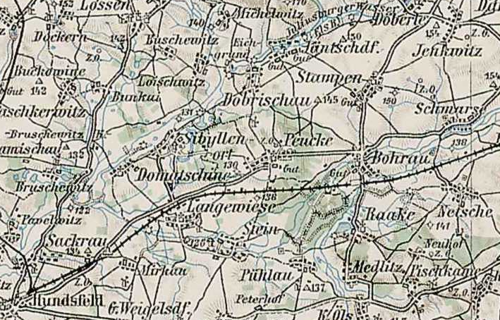 Sibillenort (Szczodre) and neighbourhood